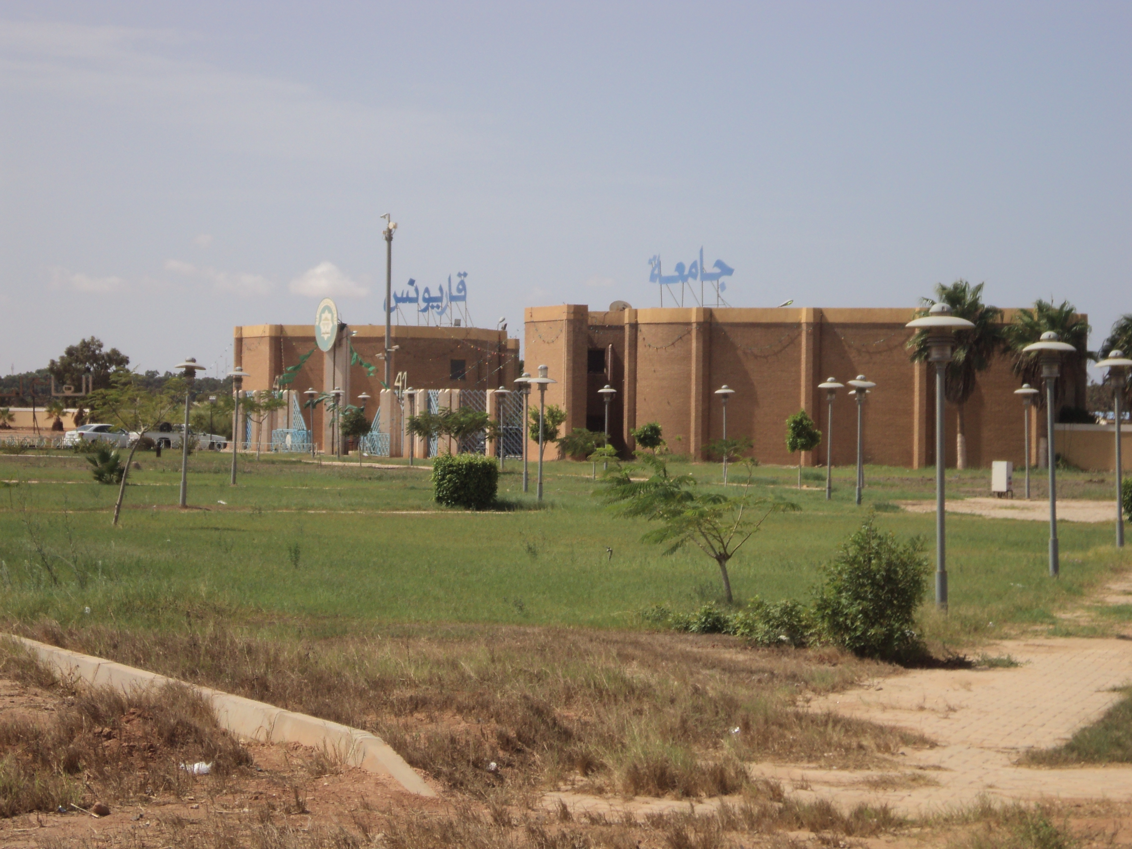 Garyounis University in Benghazi, Libya. جامعة قاريونس في بنغازي-ليبيا.